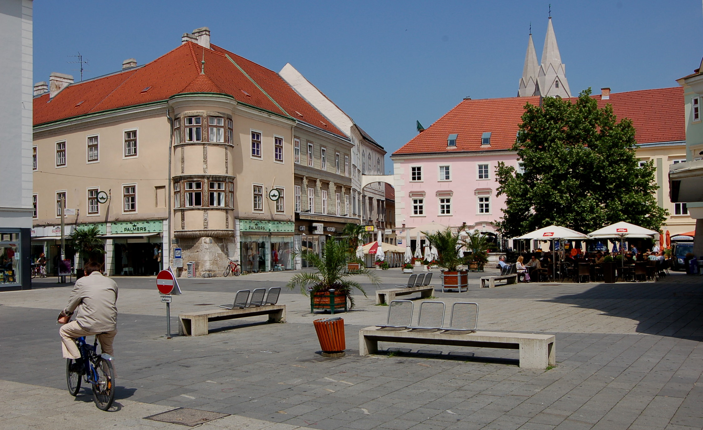 Western part of Wiener Neustadt Main square